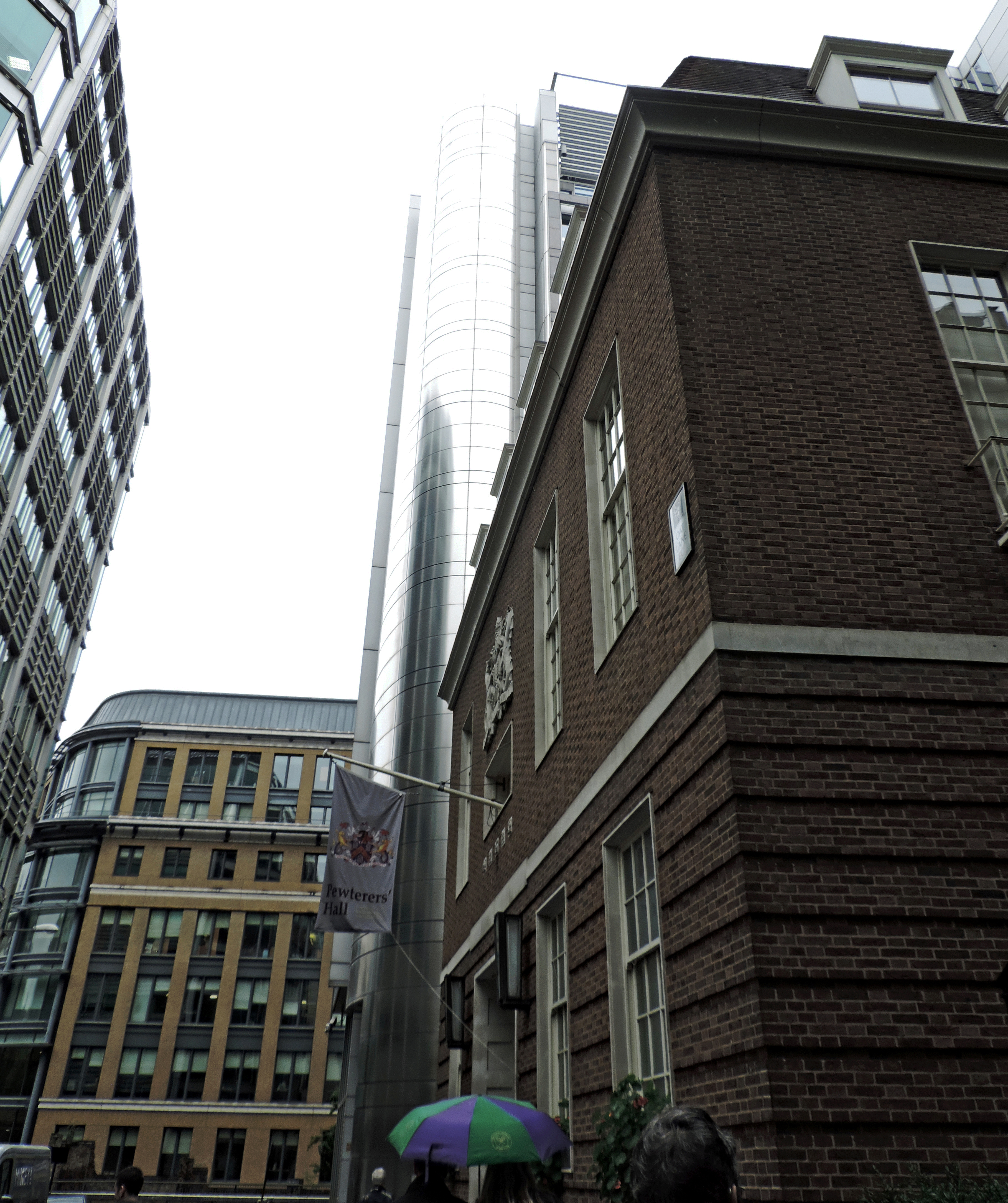 The Worshipful Company of Pewterers, Oat Lane in the City of London.